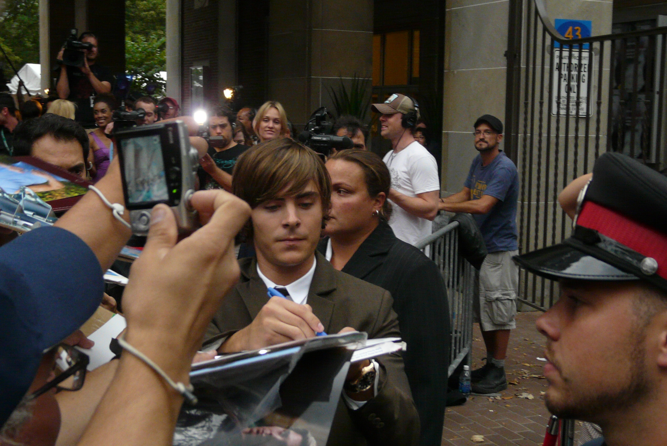 Zac Efron Arrives at Tiff '08 Premiere of Me and Orson Welles See even more at